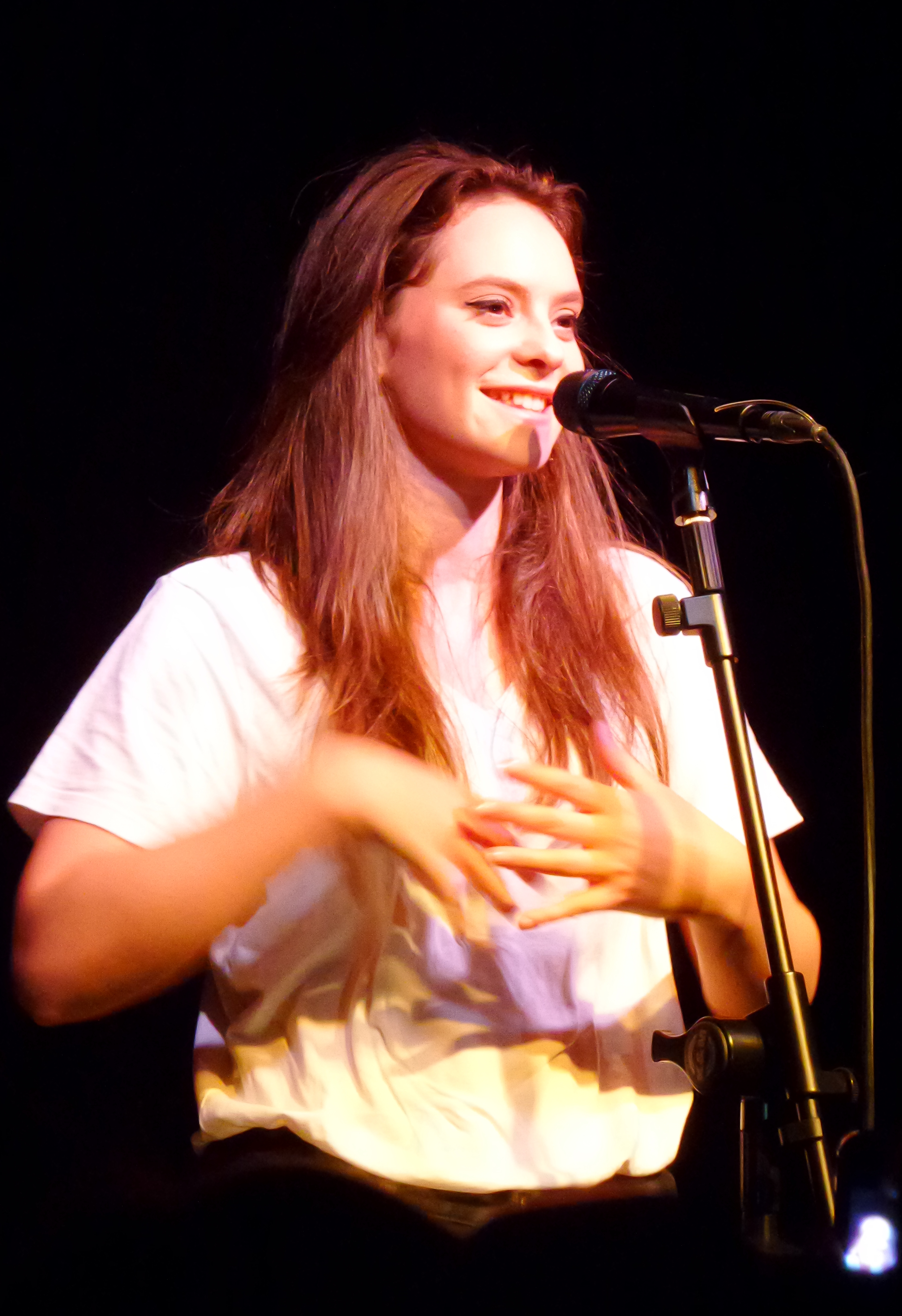 Francesca Michielin in concert during her "Nice to meet you" tour (2016), at the Latteria Molloy in Brescia, Italy